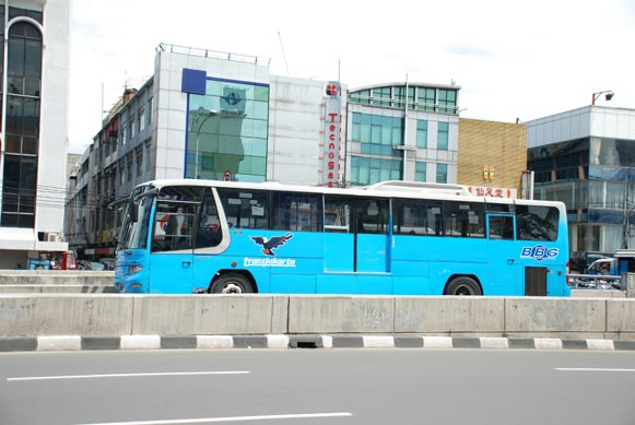 A Daewoo bus after making a stop at Harmony bus stop. This bus model is used by PT. Trans Batavia (TB) at Coridor 3 of TransJakarta Busway mass transportation system at Jakarta, Indonesia. Taken using Nikon D80, with Nikon 18-135mm F/3.5-5.6 G ED AF-S DX lens.